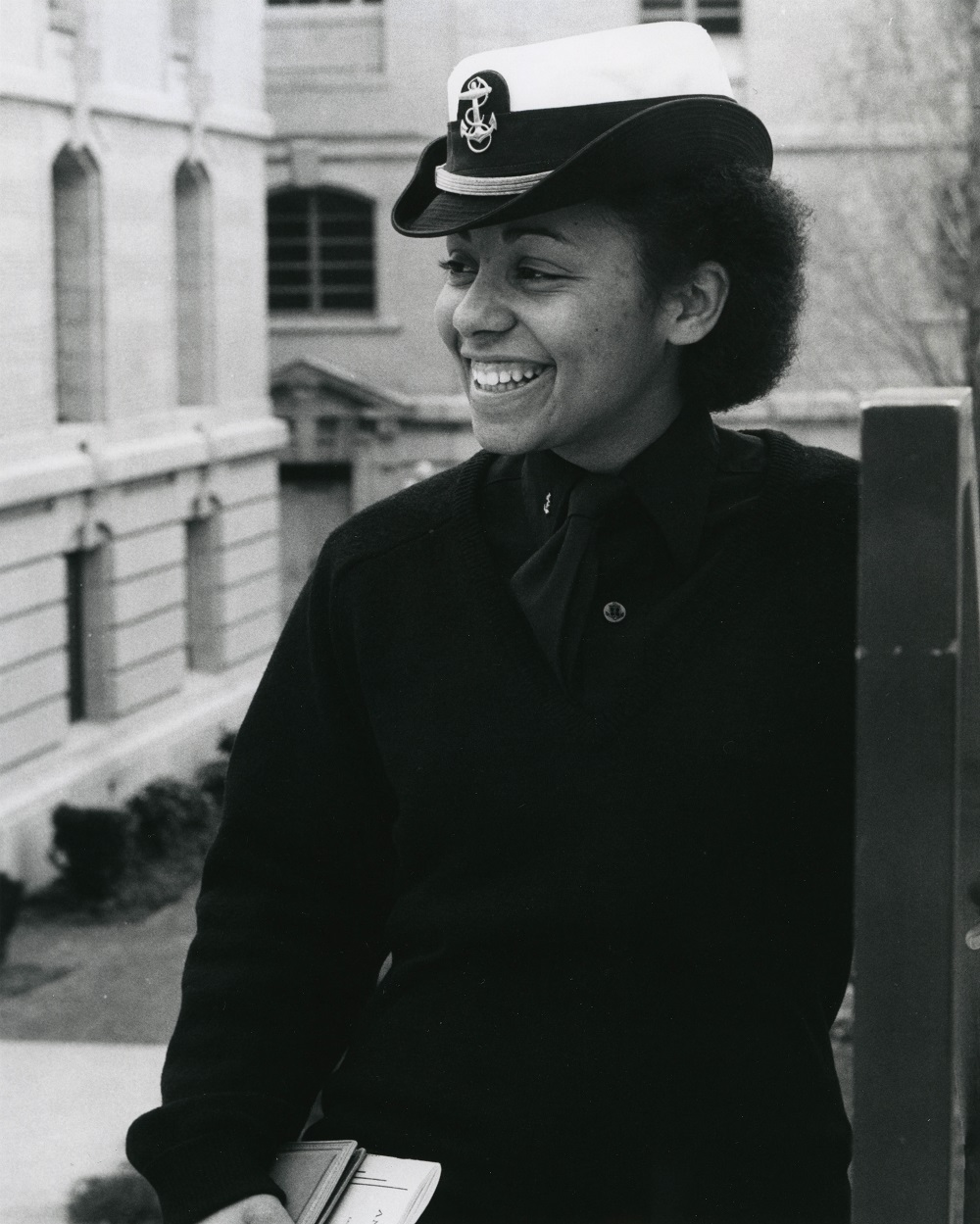 Midshipman Michelle Howard, April 9, 1980. Adm. Howard is now the vice chief of Naval Operations